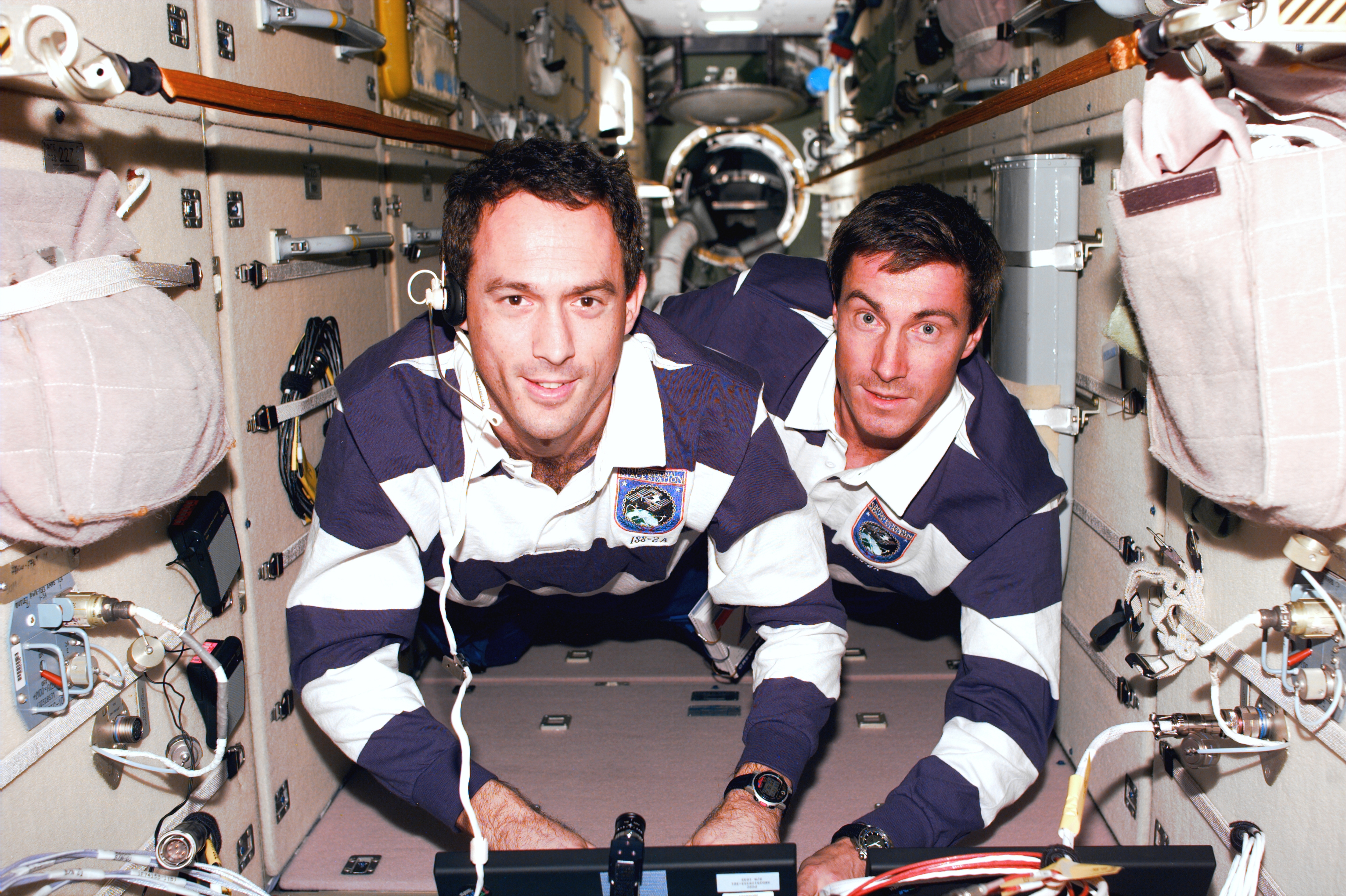 James H. Newman (left) and Sergei Krikalev are in communications with ground controllers while working aboard Zarya. The two are mission specialists, with Krikalev representing the Russian Space Agency (RSA). The photo was taken with an electronic still camera (ESC) at 05:23:01 GMT, Dec. 11.